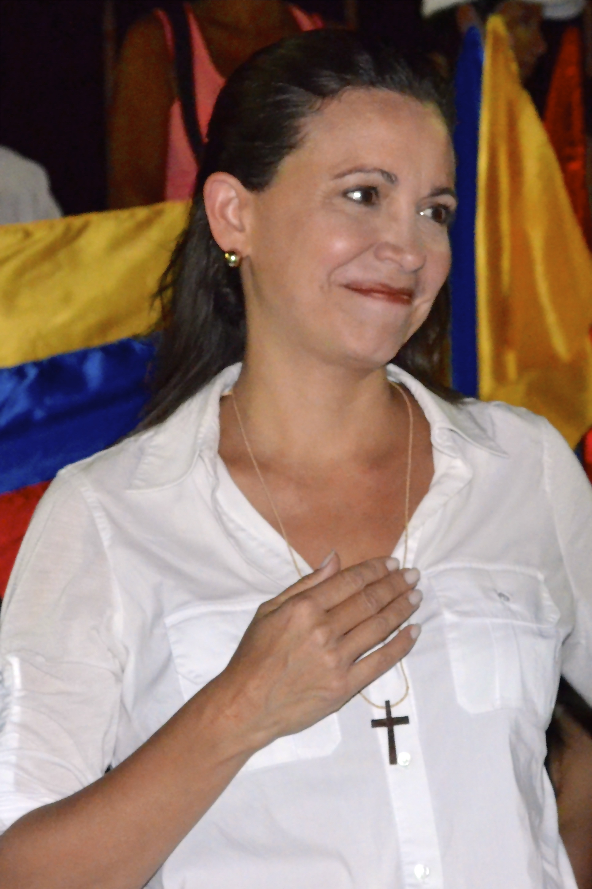 María Corina Machado at a gathering in Guarenas in 2014.